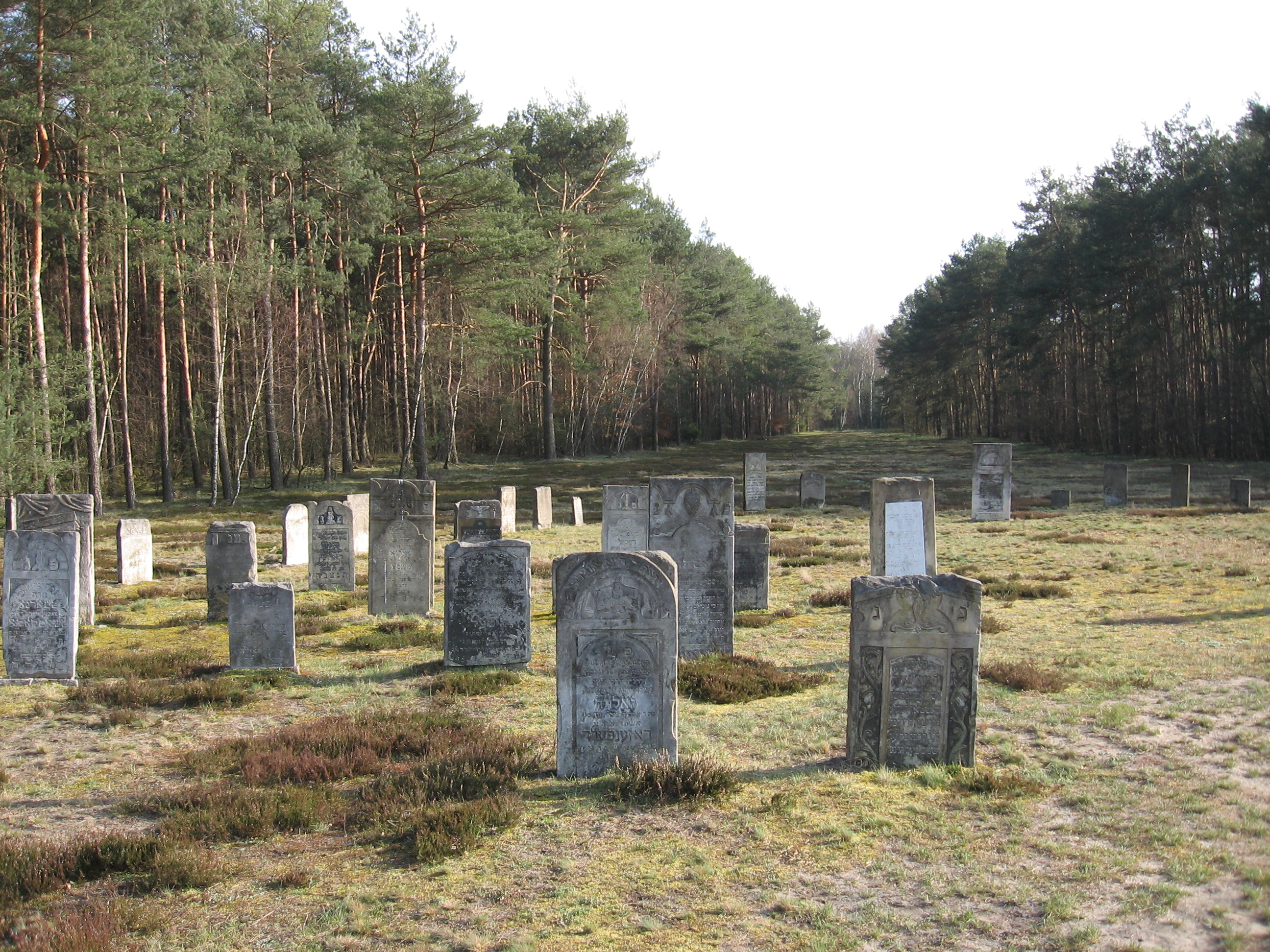 Colmhuf - Kulmhof was established in December 1941 the first extermination camp, the Polish village of Chelmno District voice - Kolo, 70 km west of Lodz. Chelmno camp was the first camp gas mass murdered in the "final solution\". He was the first deat